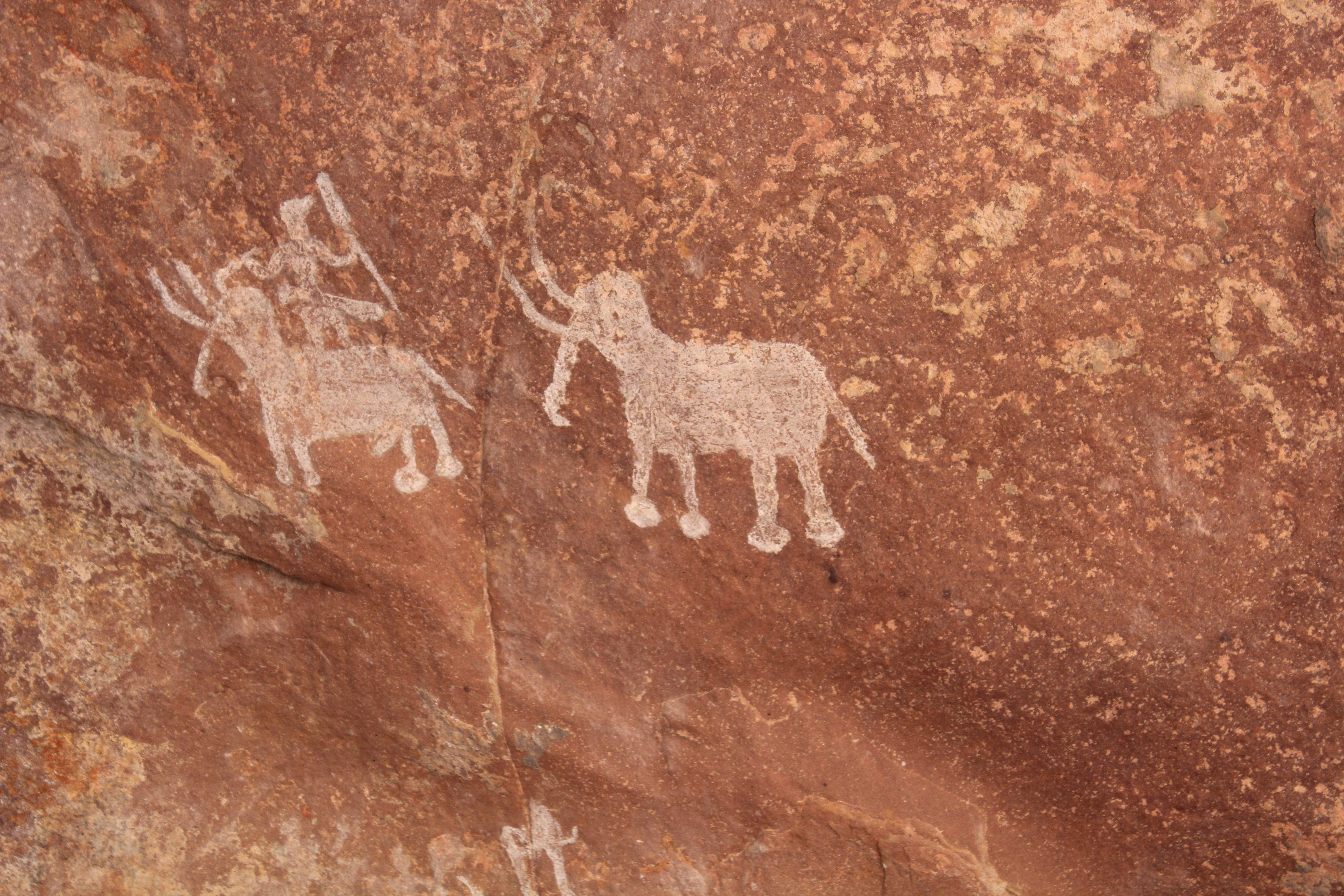 Bhimbetka, no. III F-23, two elephants with a man standing on one elephant's back holding a goad Bhopal Madhya Pradesh India 2012